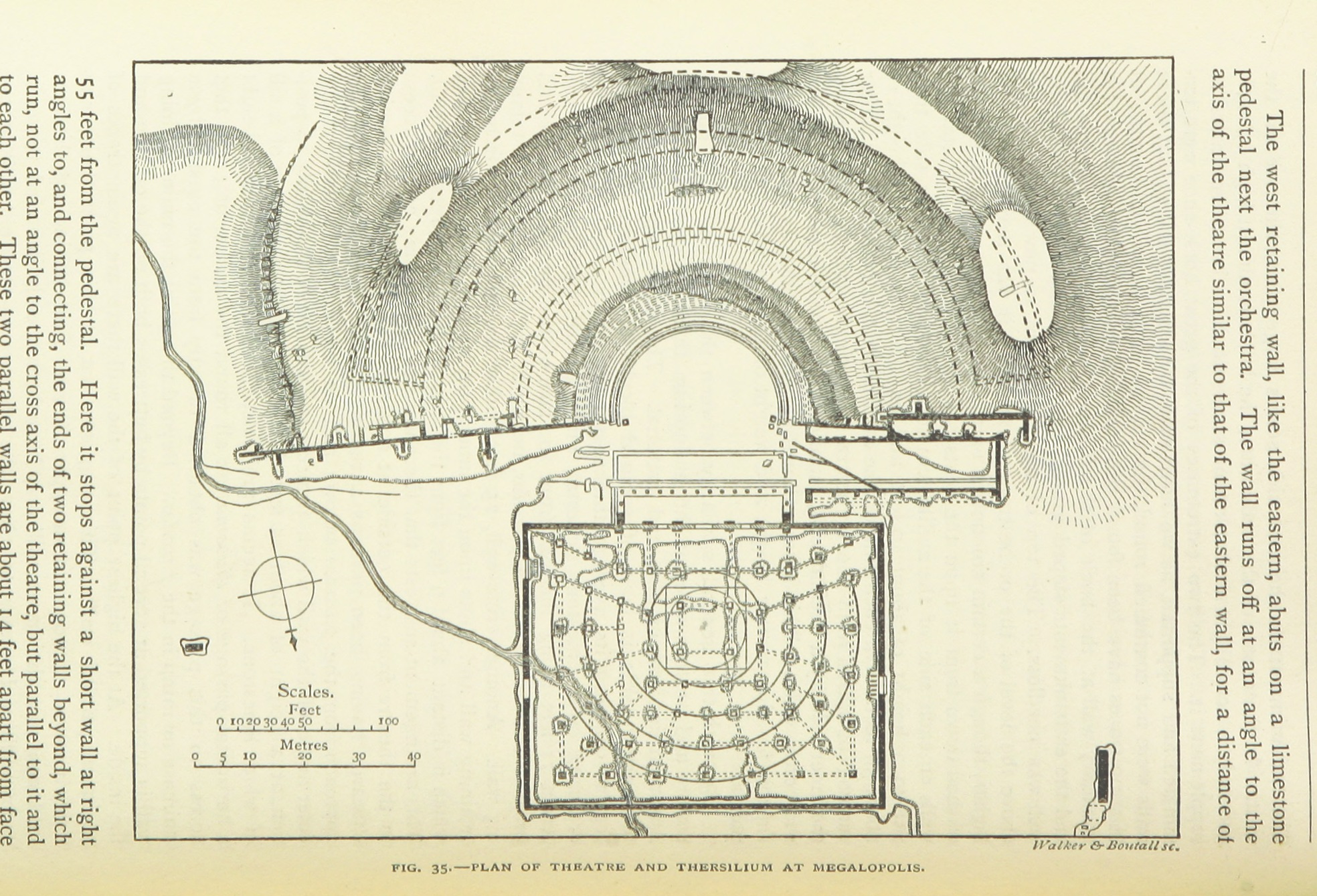 View this map on the BL Georeferencer service. Image taken from: Title: "Pausanias's Description of Greece. Translated with a commentary by J. G.Frazer" Contributor: Frazer, James George - Sir Shelfmark: "British Library HMNTS 010127.b.36." Volume: 04 Page: 348 Place of Publishing: London Date of Publishing: 1898 Publisher: Macmillan & Co. Issuance: monographic Identifier: 002798431 Explore: Find this item in the British Library catalogue, 'Explore'. Open the page in the British Library's itemViewer (page image 348) Download the PDF for this book Image found on book scan 348 (NB not a pagenumber)Download the OCR-derived text for this volume: (plain text) or (json) Click here to see all the illustrations in this book and click here to browse other illustrations published in books in the same year. Order a higher quality version from here.